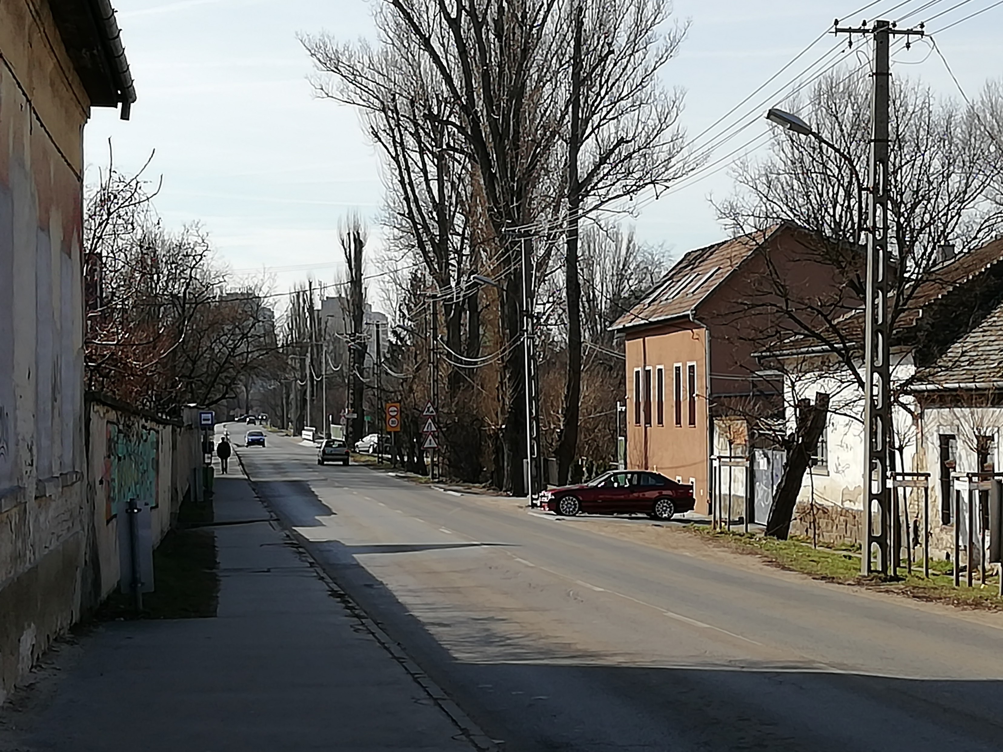 Ferihegyi street in Budapest District XVII. looking from Rákosliget railway station towards Rákoskeresztúr